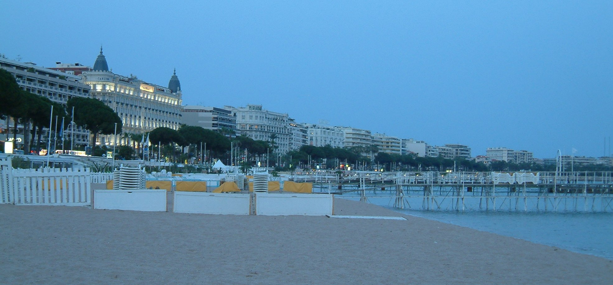 Cannes, FRANCE